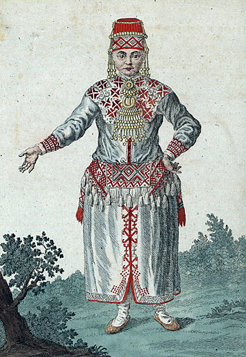 Mordva.